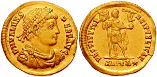 VALENS. 364-378 AD. AV Solidus (4.46 gm). Antioch mint. Struck 365 AD. D N VALENS P F AVG, Pearl-diademed, draped, and cuirassed bust right RESTITUTOR REI PUBLICAE, Valens standing right holding labarum and Victory on globe; ANTA*. RIC IX 2d.xxix; Depeyrot 22/2. .Nice VF.